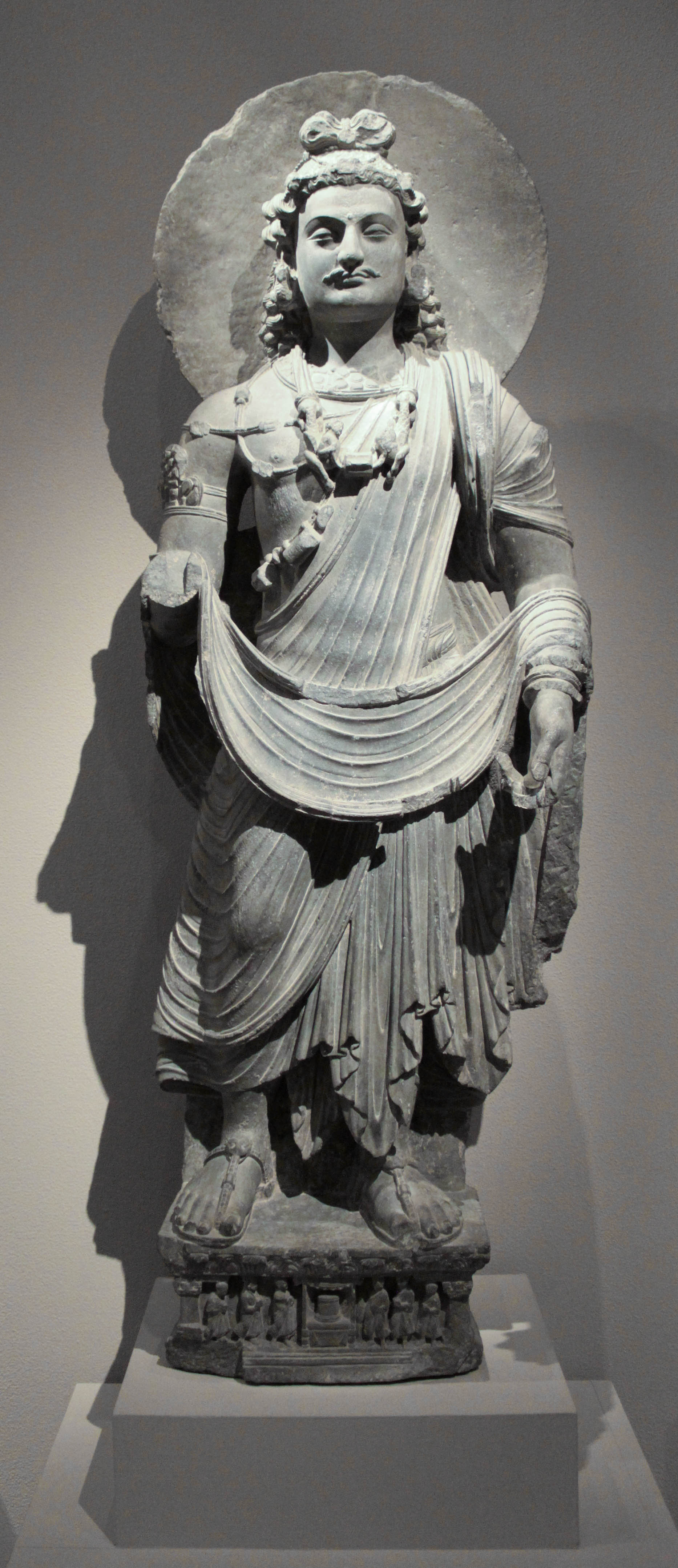 Standing Bodhisattva Maitreya (schist), Pakistan (3rd century) - Metropolitan Museum of Art, New York